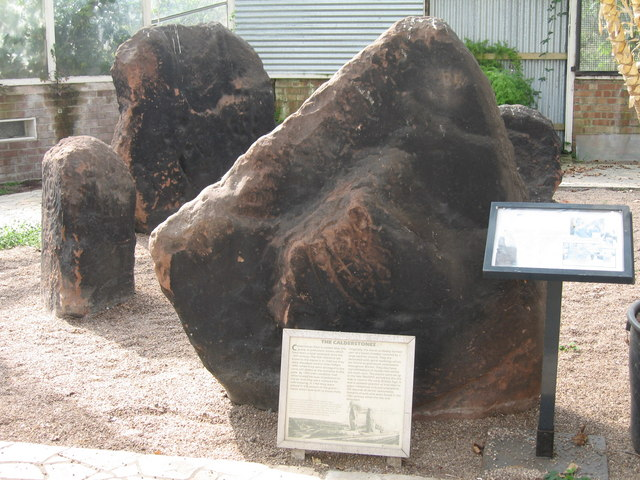 The Calderstones, Calderstone Park